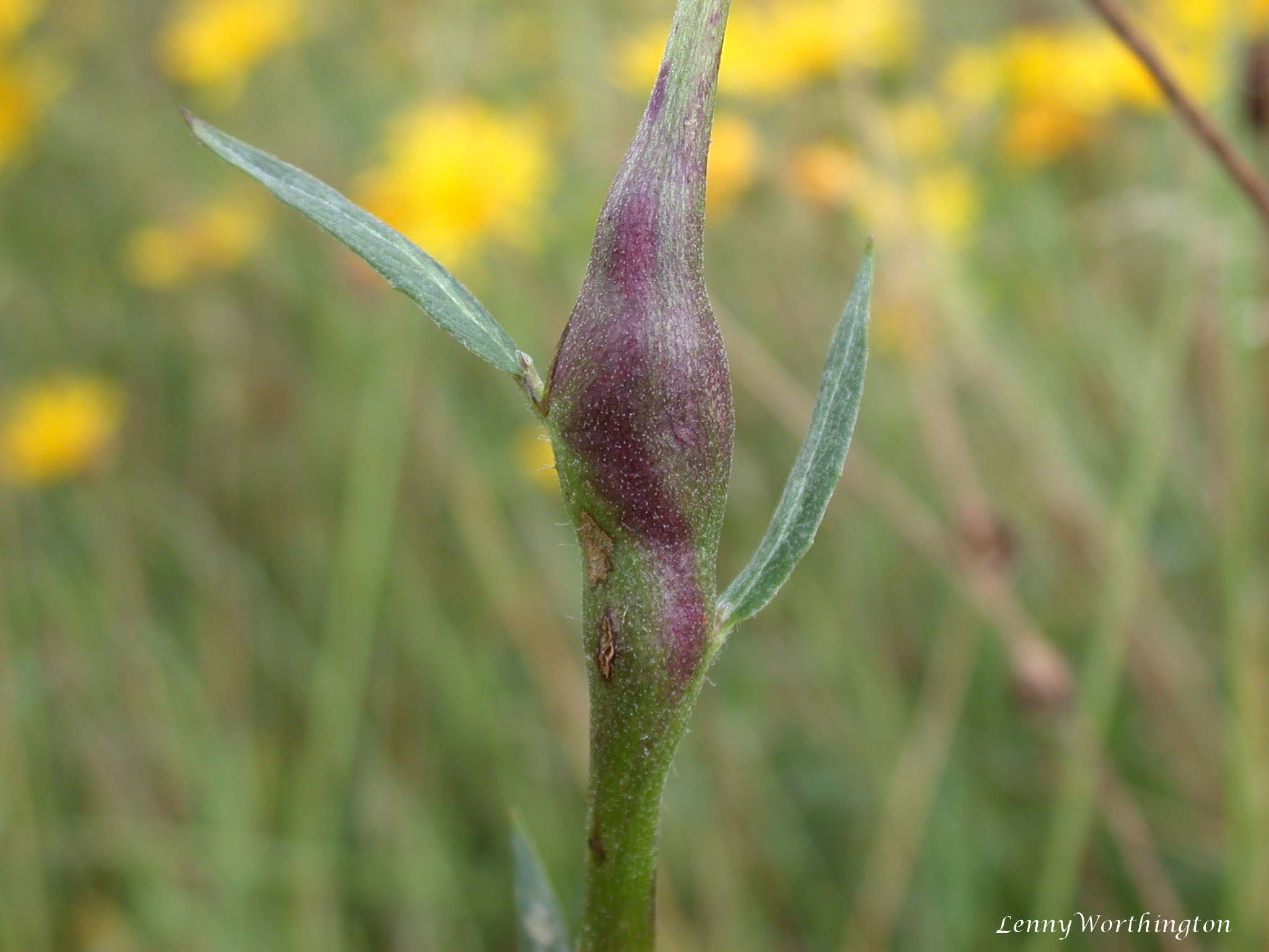 Aulacidea hieracii on Narrow-leaved Hawkweed Hieracium umbellatum (Stockport, Cheshire, UK)